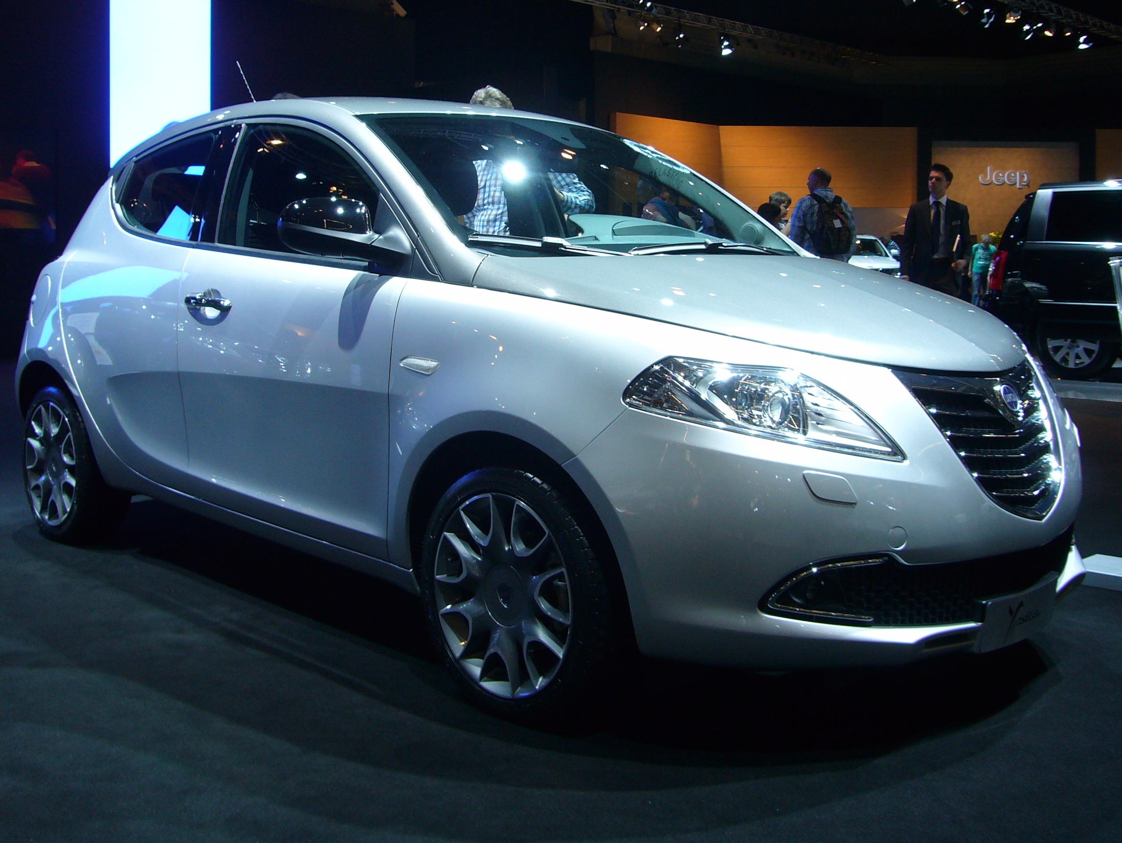 Lancia Ypsilon at AutoRAI Amsterdam 2011